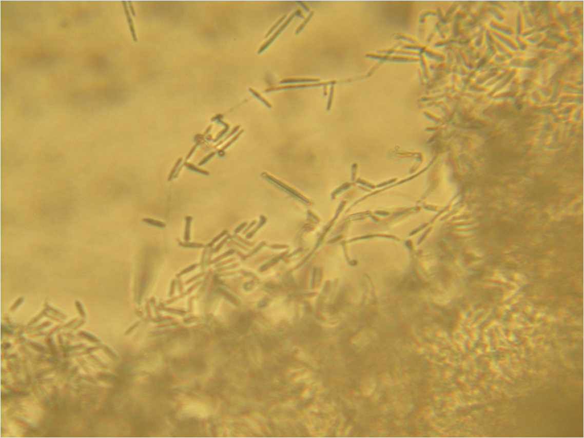 Haploid sporidia of Ustilago maydis magnified 160X. Recovered from sweet corn (Zea mays L.). Host status confirmed using Farr, D. F., Bills, G. F., Chamuris, G. P., & Rossman, A. Y. (1995) Fungi on Plants and Plant Products in the United States. APS Press: St. Paul, MN; pp. 428–33 ISBN 0-89054-099-3.